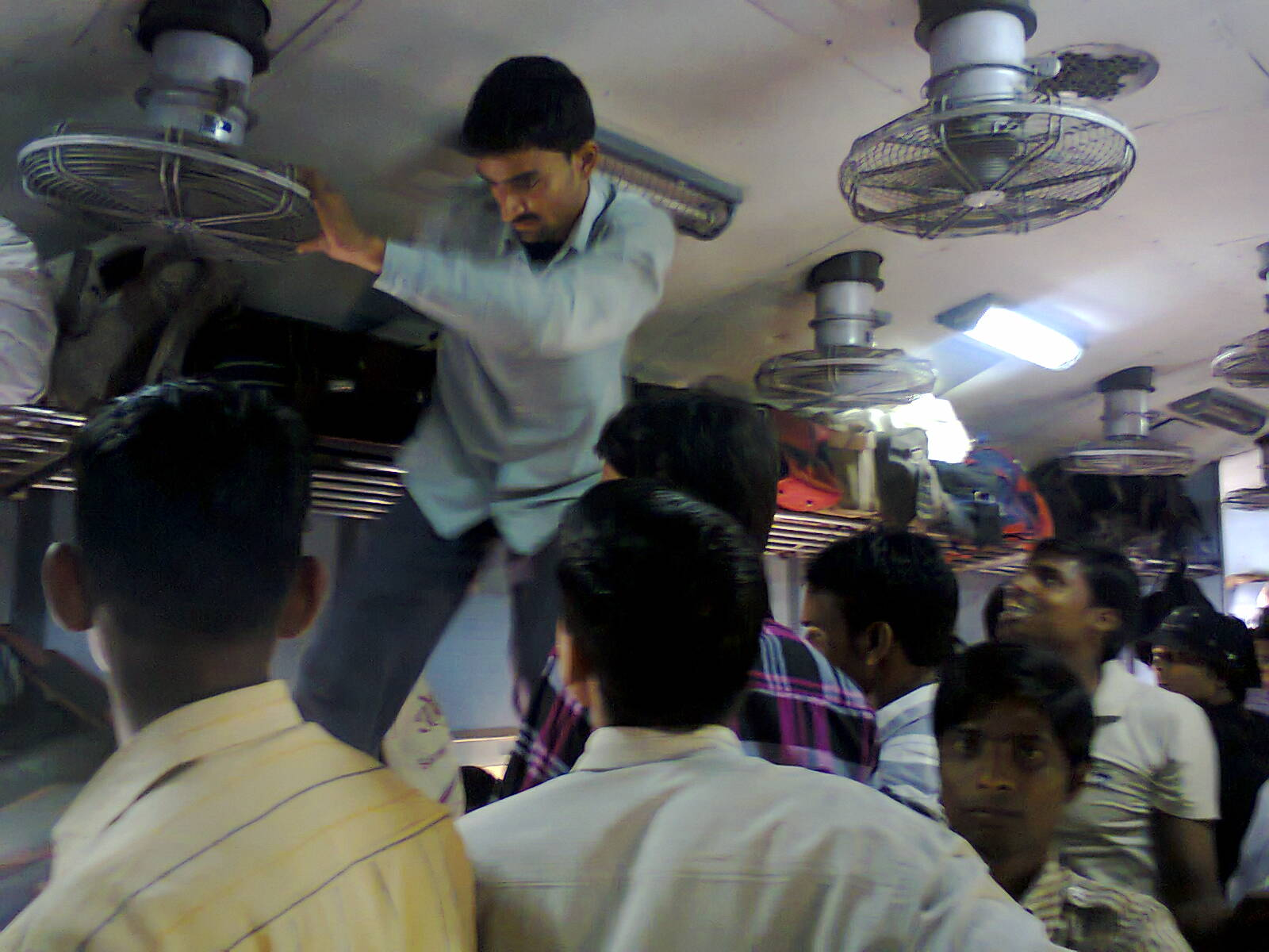 Train, Indian Railways